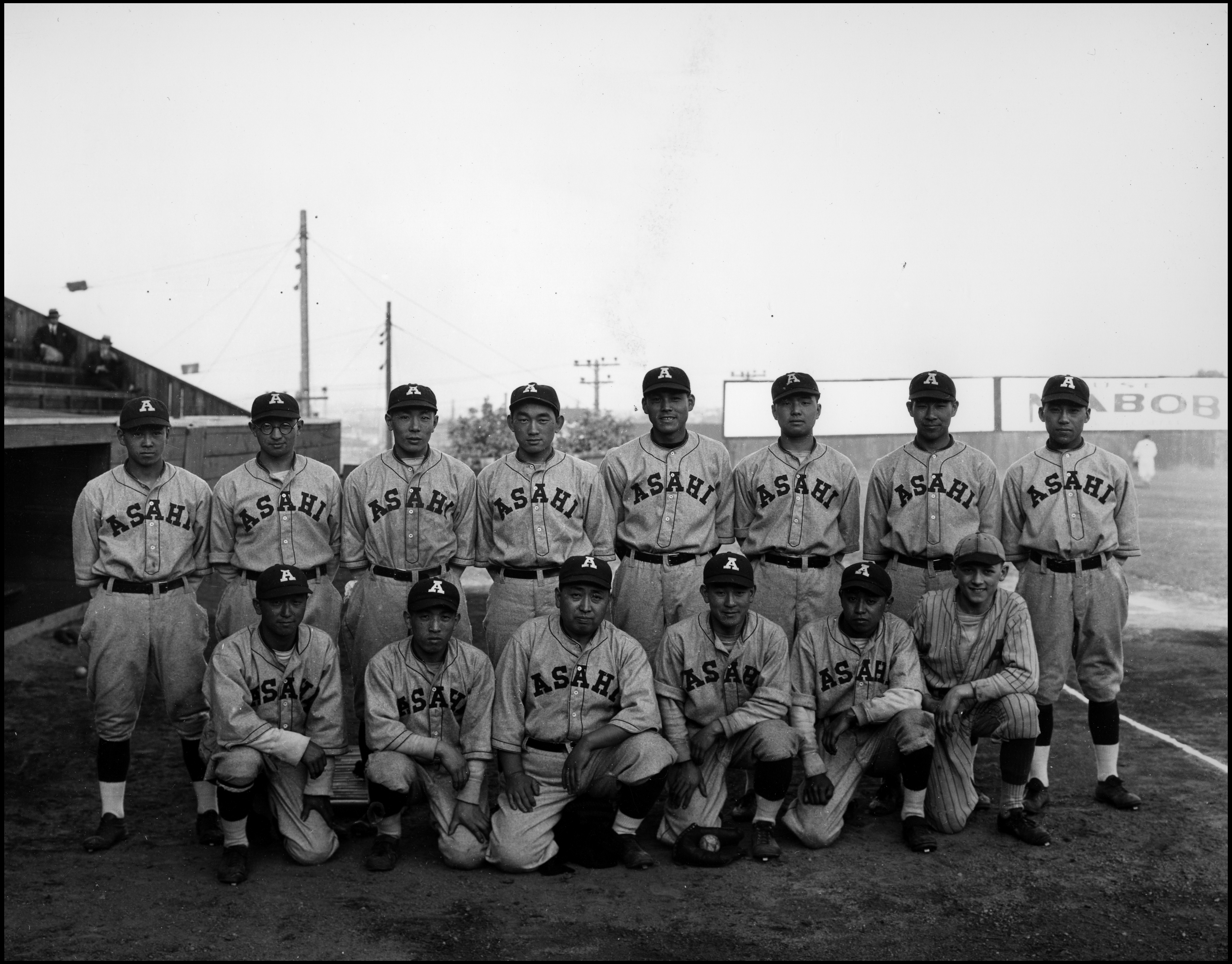 Asahi Baseball Club - seniors VPL Accession Number: 11750 Date: 1929 Photographer/Studio: Thomson, Stuart Topic: Japanese Canadians Baseball Baseball players Organization: Asahi (Baseball team) More information on our historical photograph collection